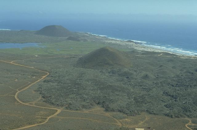 San Quintín volcanic field on the NW coast of Baja California state — Mexico.